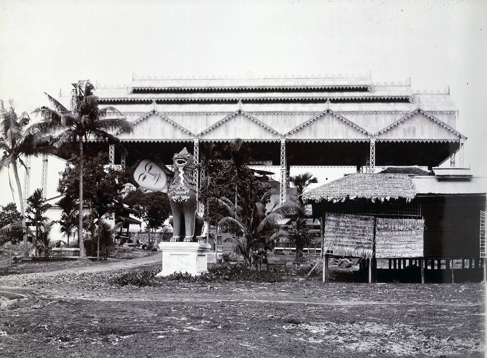 Photograph of the Shwethalyaung Buddha near Pegu (Bago), Burma (Myanmar), from the Archaeological Survey of India Collections: Burma Circle, 1907-13. The photograph was taken by an unknown photographer of the Burma Archaeological Survey. Bago, the fourth largest city in Burma, is about 80 kms north-east of Rangoon and was once ancient Hanthawadi, the capital of a Mon kingdom. It is said to have been founded in the 6th century by two Mon princes from Thaton, but achieved its greatest prosperity in the later Mon dynastic period of 1369-1539. To Europeans, it was the important seaport of Pegu. Today little remains of its regal past. Outside the city is a great image of the reclining Buddha (Shwethalyaung), 54 m long and originally sculpted in the 10th century. The image is 16 ms high and is housed in a spacious iron tazaung or hall. The huge Buddha in relaxed mode was originally built of brick and stucco but deteriorated and was almost lost after the ravaging of Bago in 1757 by King Alaungpaya who desired to vanquish the resurgent Mon. Hidden by jungle, it was accidentally discovered in the 1880s during the British construction of the railways. It was restored and a Calcutta engineering company built the tazaung that shelters it.